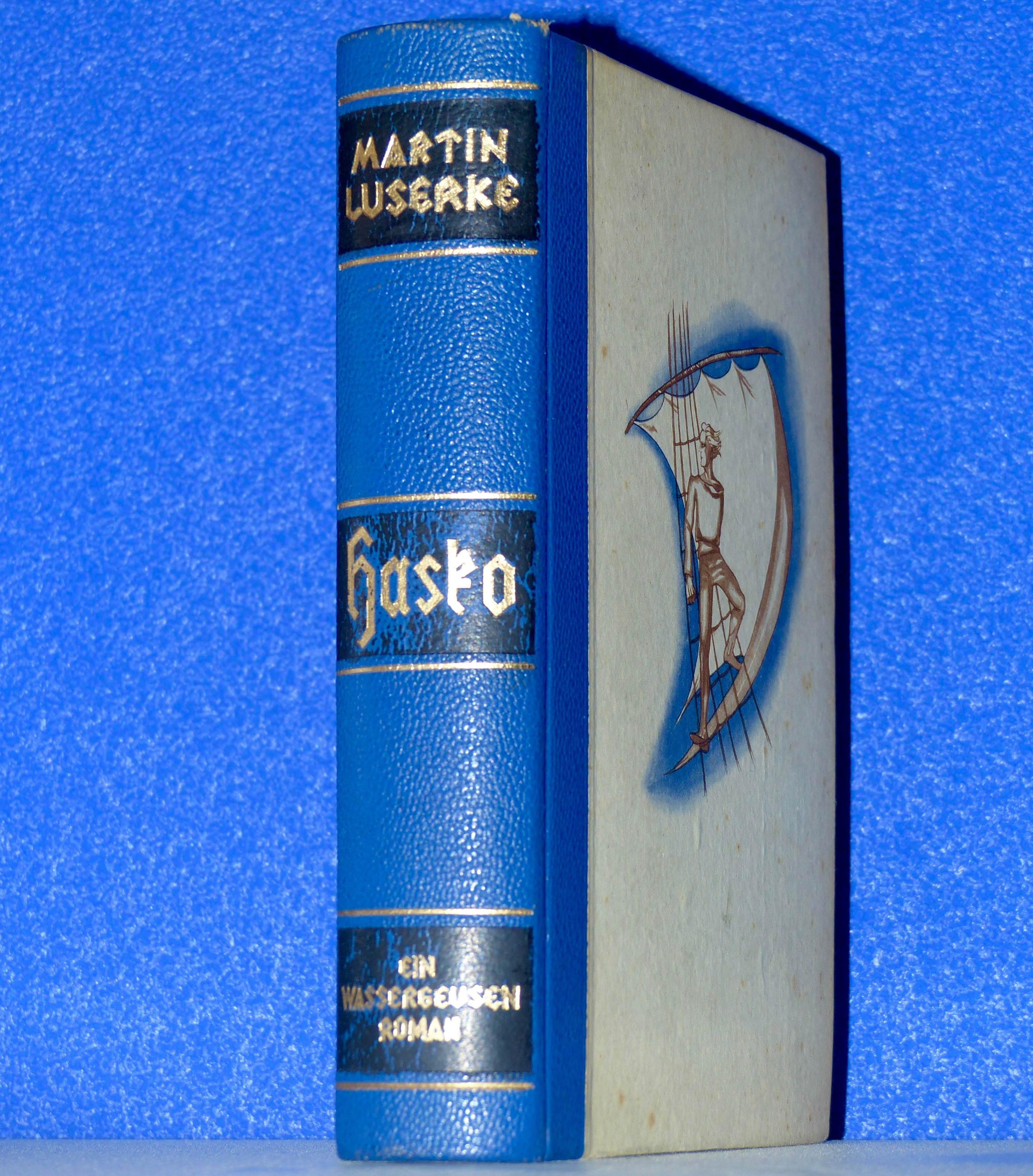 Book cover of Hasko by Martin Luserke (1880–1968) from 1936, published by Ludwig Voggenreiter Verlag in Potsdam, Germany. The title got awarded with the 1st price of Literaturpreis der Reichshauptstadt Berlin in 1935.